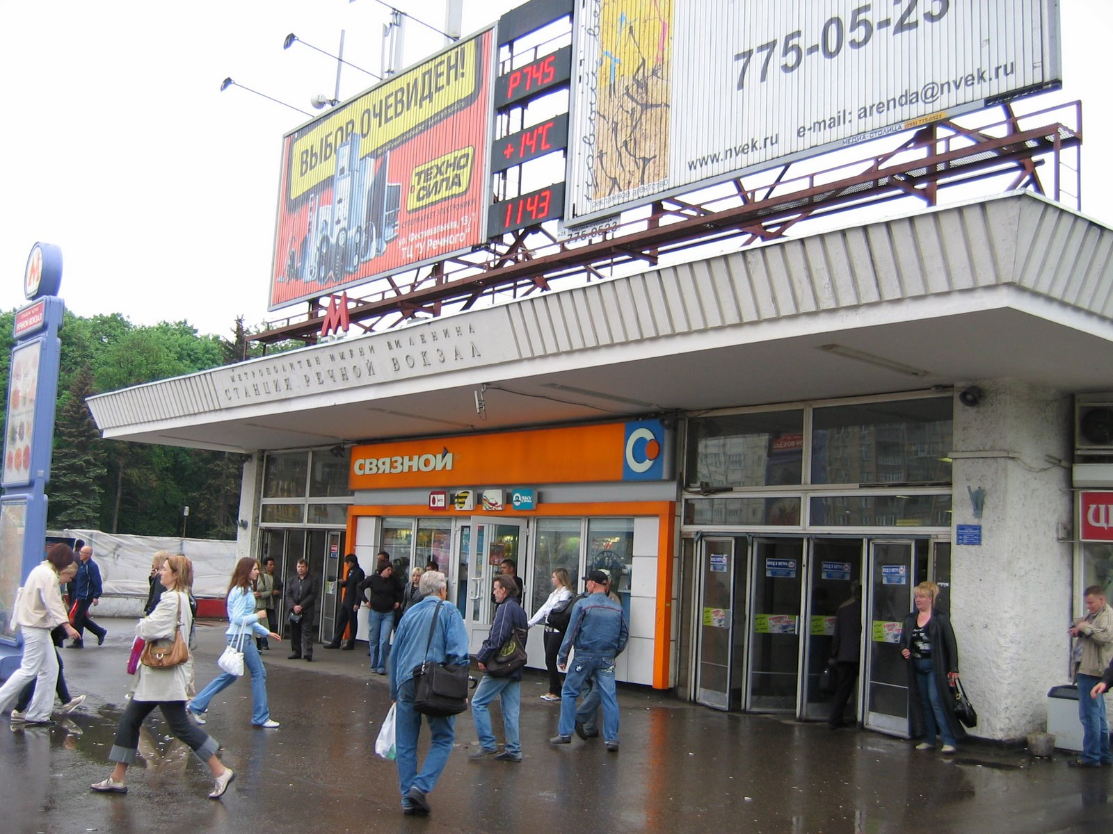 The entrance to the Rechnoy Vokzal station on the Moscow Metro.